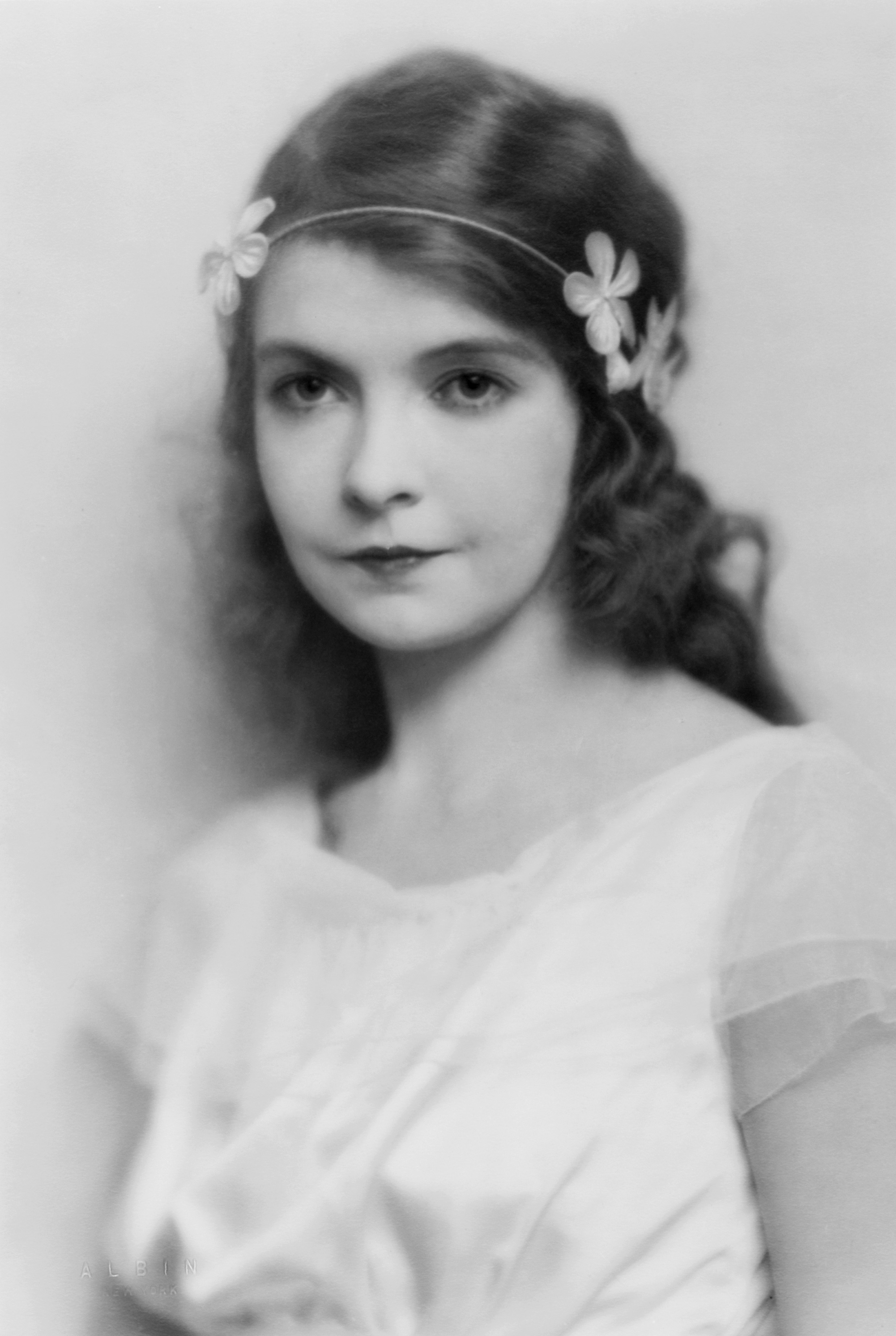 Lillian Gish, head-and-shoulders portrait, facing slightly left, possibly in costume. Photo by Charles Albin, New York, 1922. From the Lillian Gish Collection at the U.S. Library of Congress. More pictures of Lillian Gish | More Hollywood portraits [PD] This picture is in the public domain.